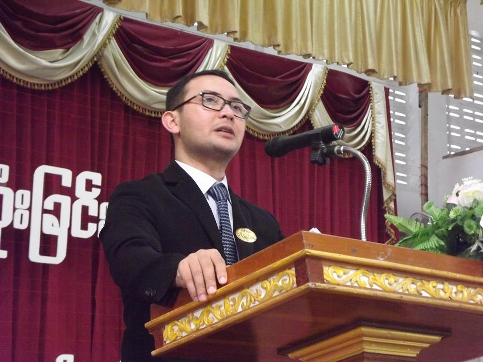 Chief of Rakhine Army(AA) named Twan Mrat Naing